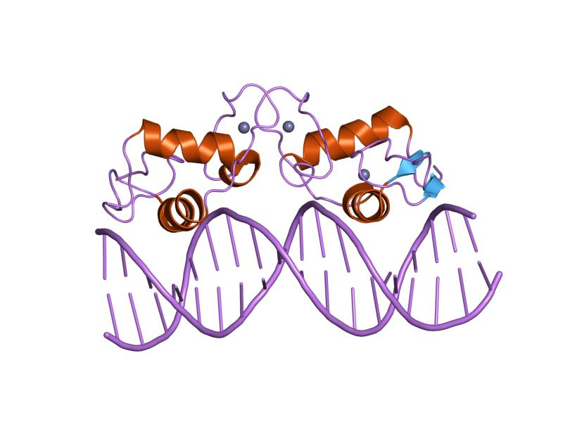 Cartoon representation of the molecular structure of protein registered with 1r4i code.